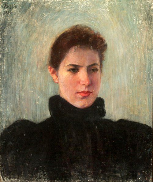 Ada Thilen self portrait - she died 1933.